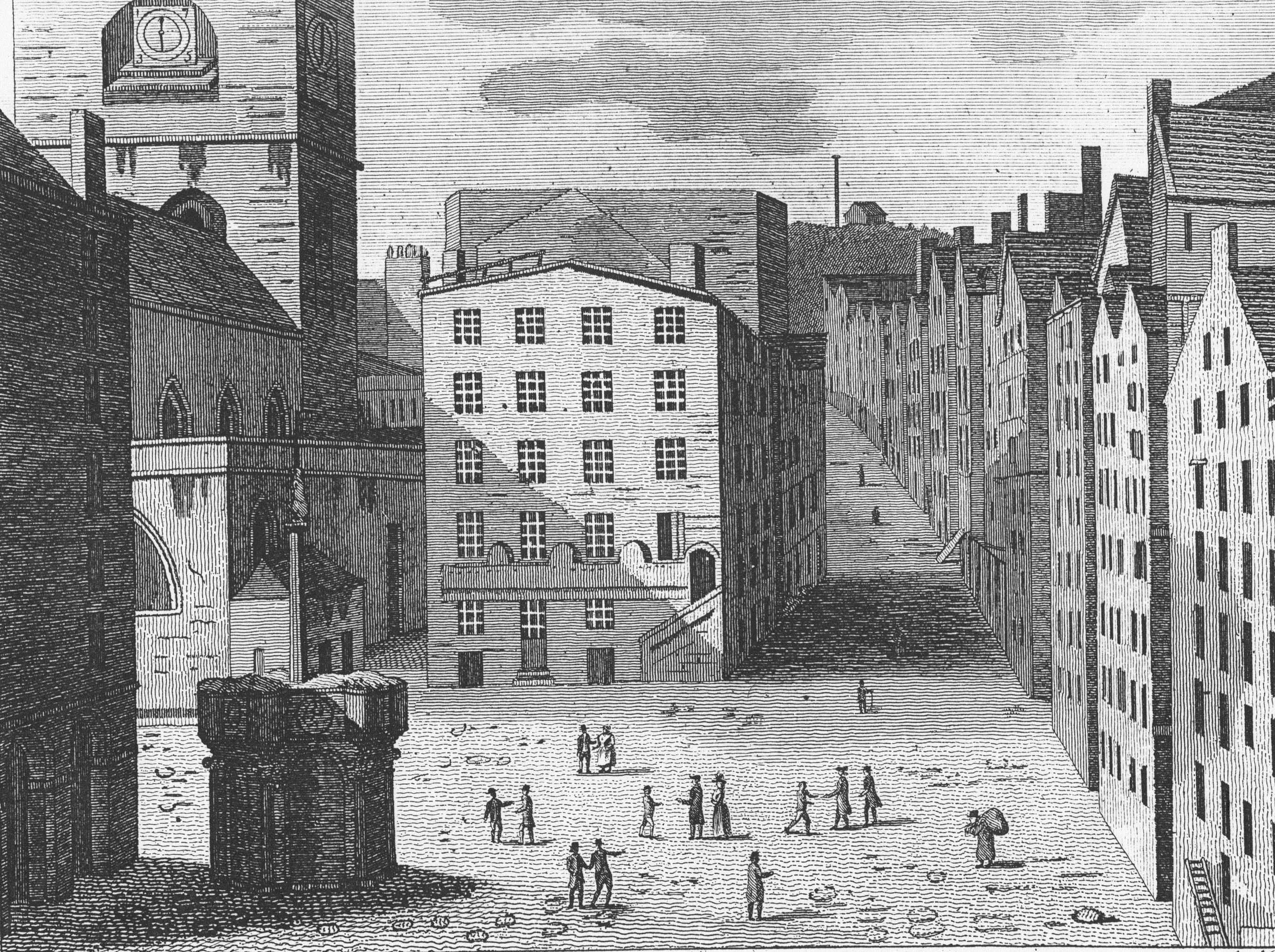 An engraving from 1791 showing Creech's Land. The position of the mercat cross shown here is a few metres down the High Street from the position of the Victorian reconstruction.